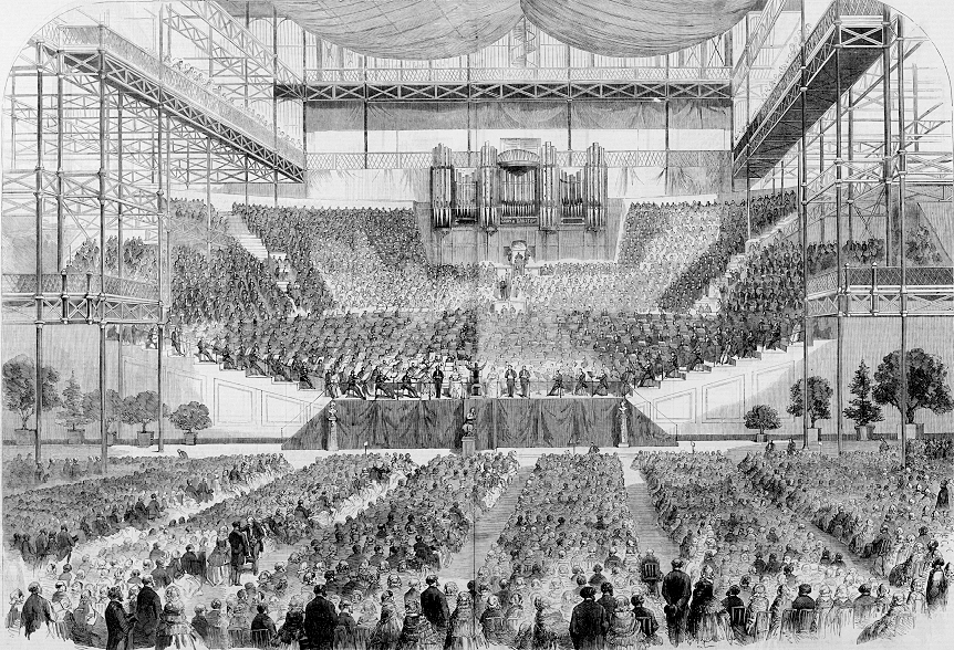 Interior of the Crystal Palace, London, for a music festival in 1857. August Manns, conductor